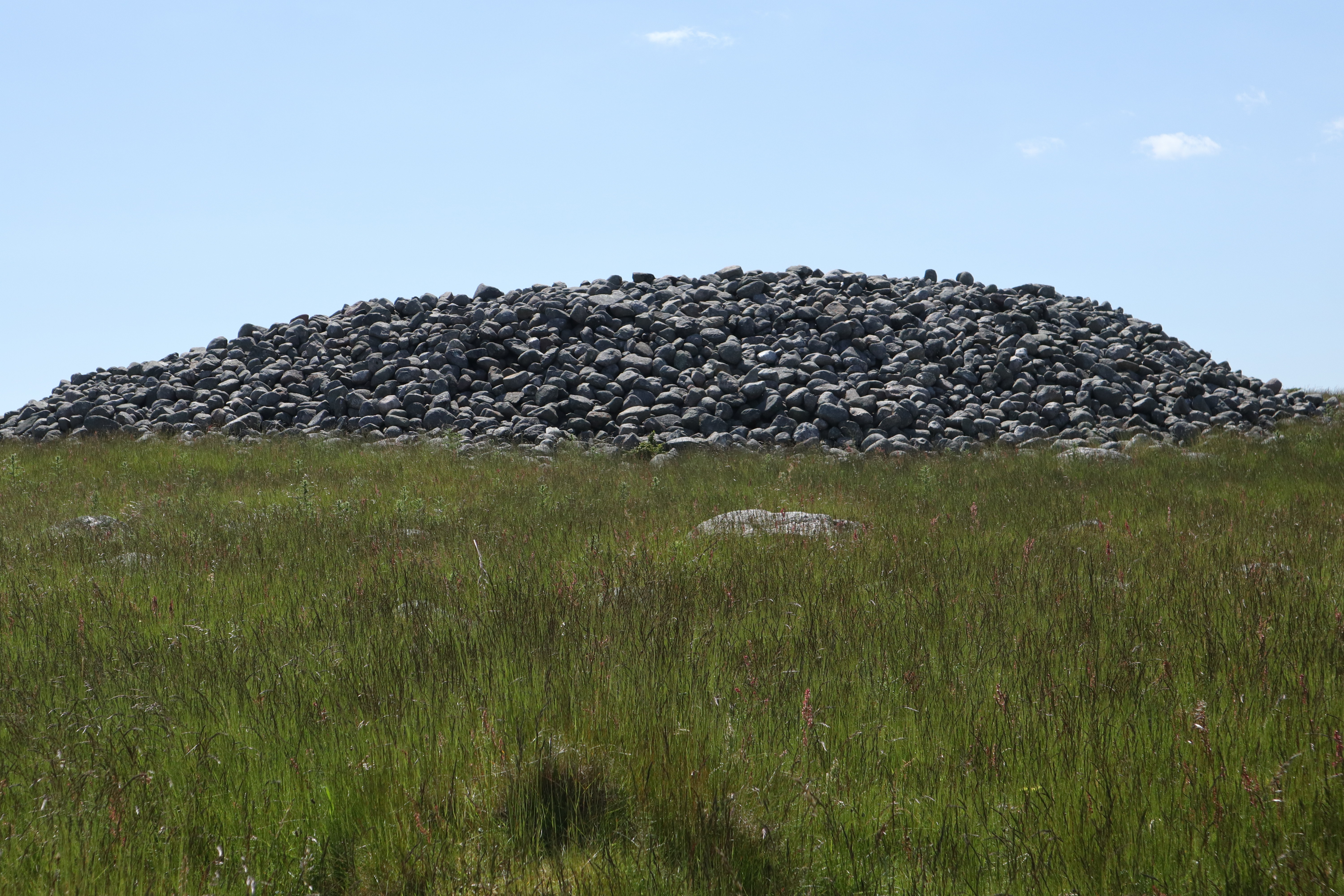 Jerkholmen